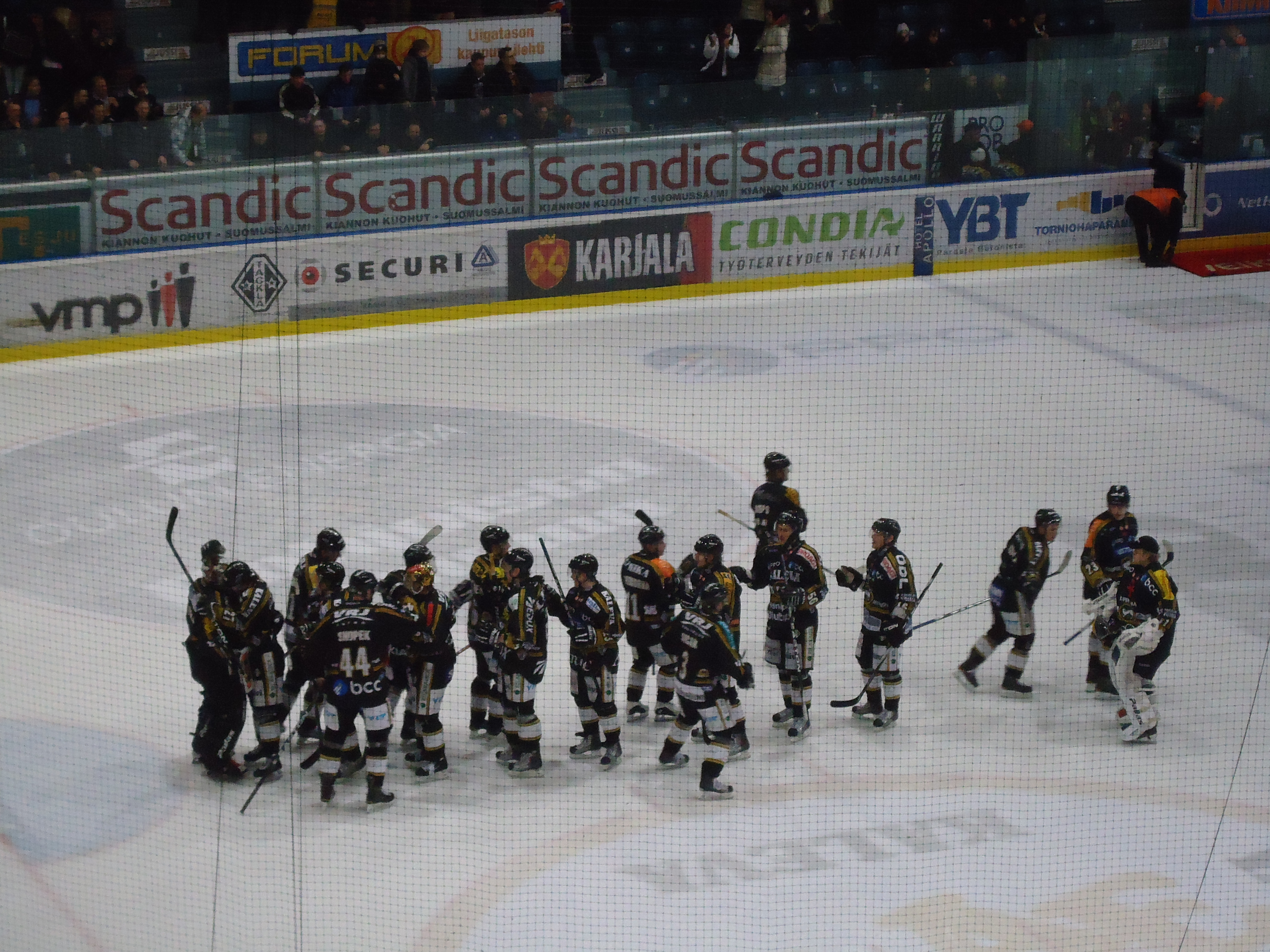 Kärpät celebrating their victory against Tappara